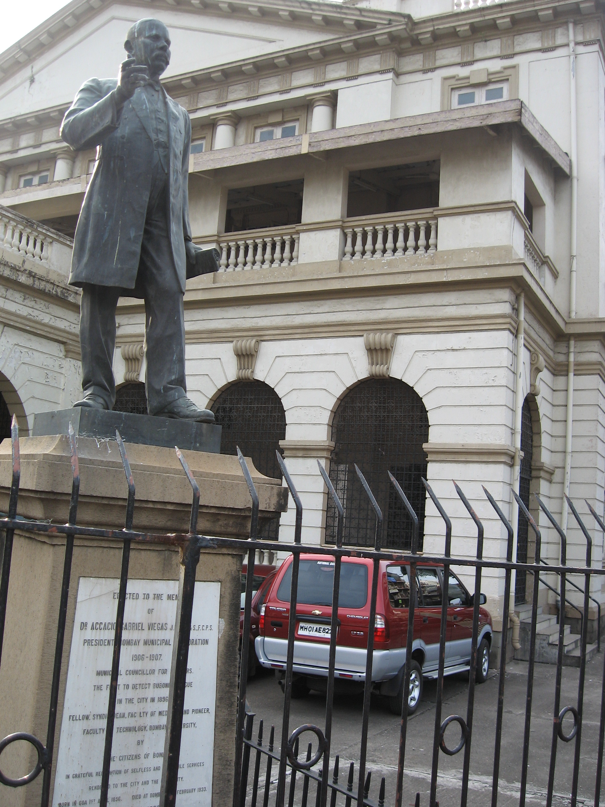 Acacio Gabriel Viegas , president of the Bombay Municipal Corporation first detected bubonic plague in the city.